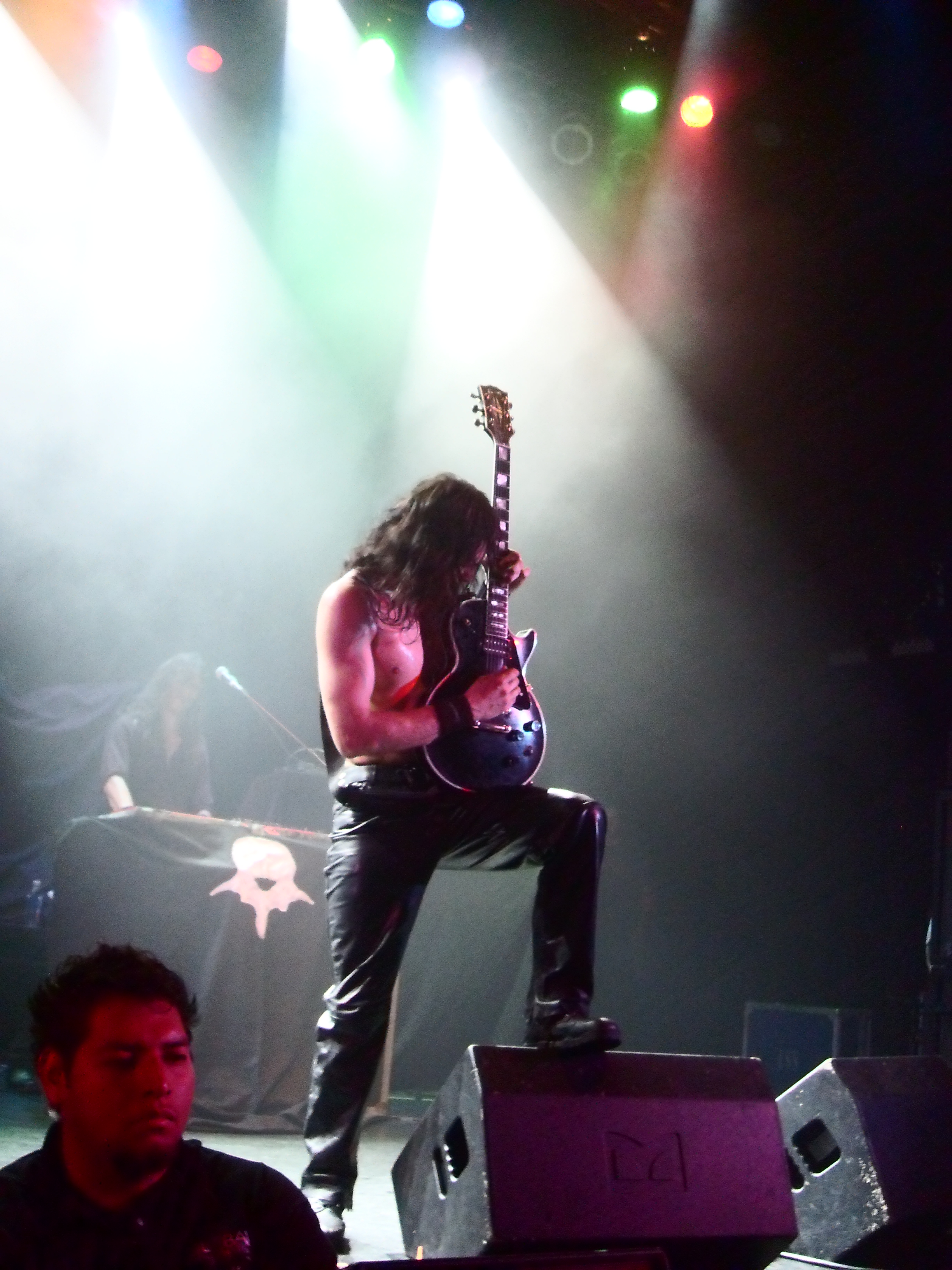 Arve Isdal, guitarrist of Enslaved